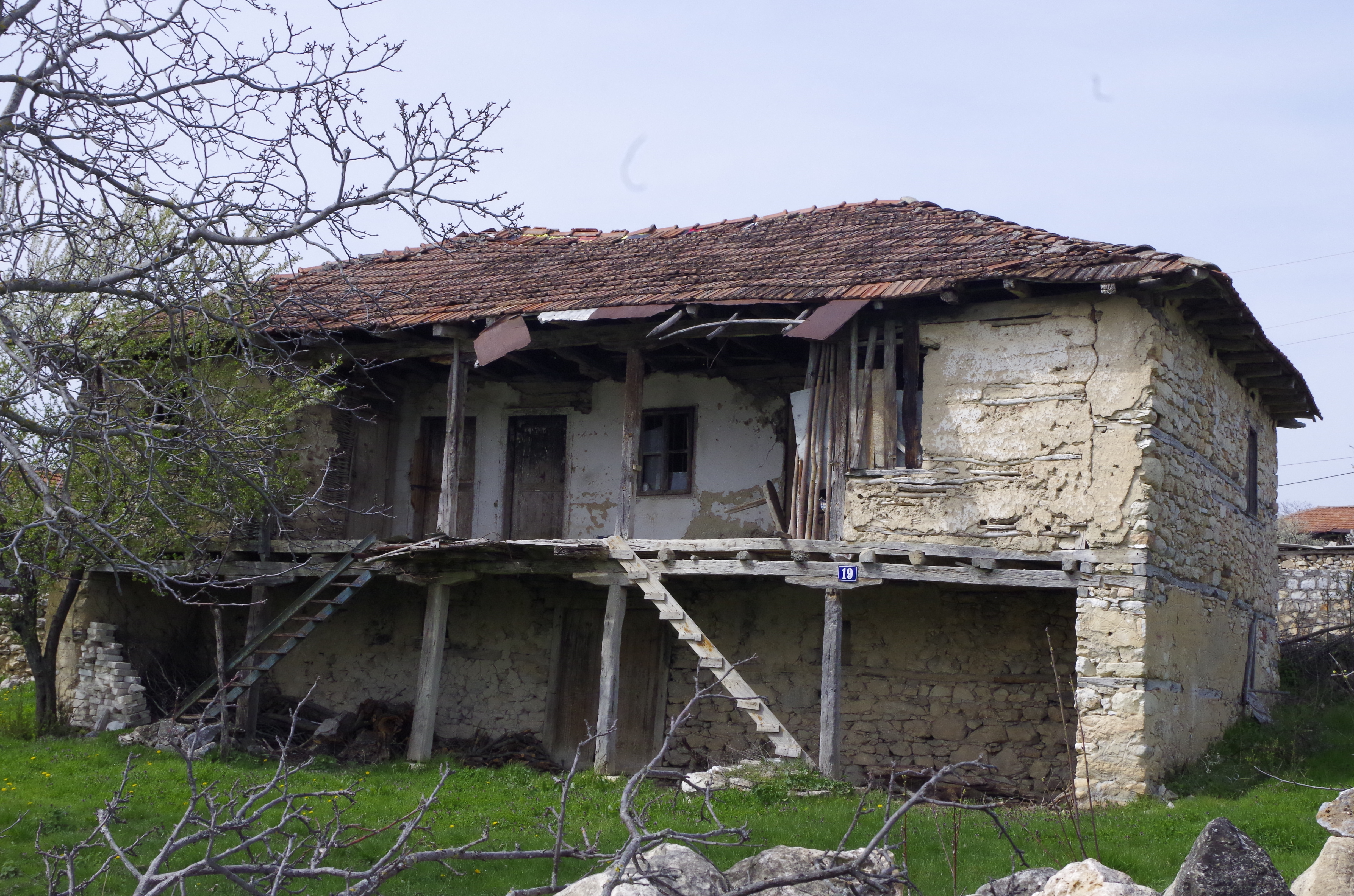 An old house in the village of Jabolci, Macedonia